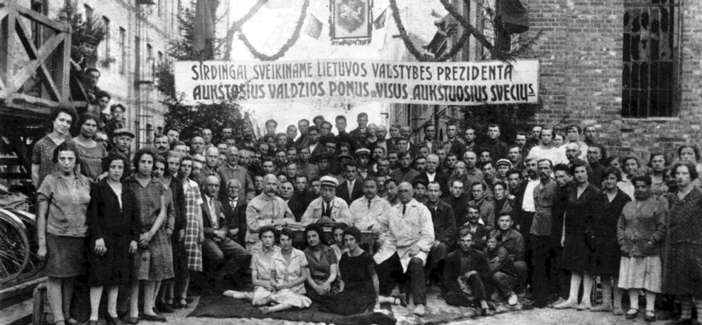 Workers of Frenkelis tannery in Šiauliai, about 1930. Jokūbas Frenkelis in center